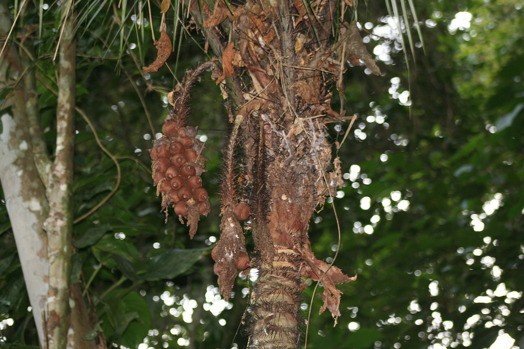 Astrocaryum aculeatissimum. I don't know of an English common name. This is a common palm in our part of the lowland Atlantic Forest, with sharp needle-like spines on the trunk and these large orange-brown fruit. I'm told the spines were used as sewing needles by indigenous people and that the wood is good for making bows. The fruit is apparently good for making pulp from about September (we'll see!)